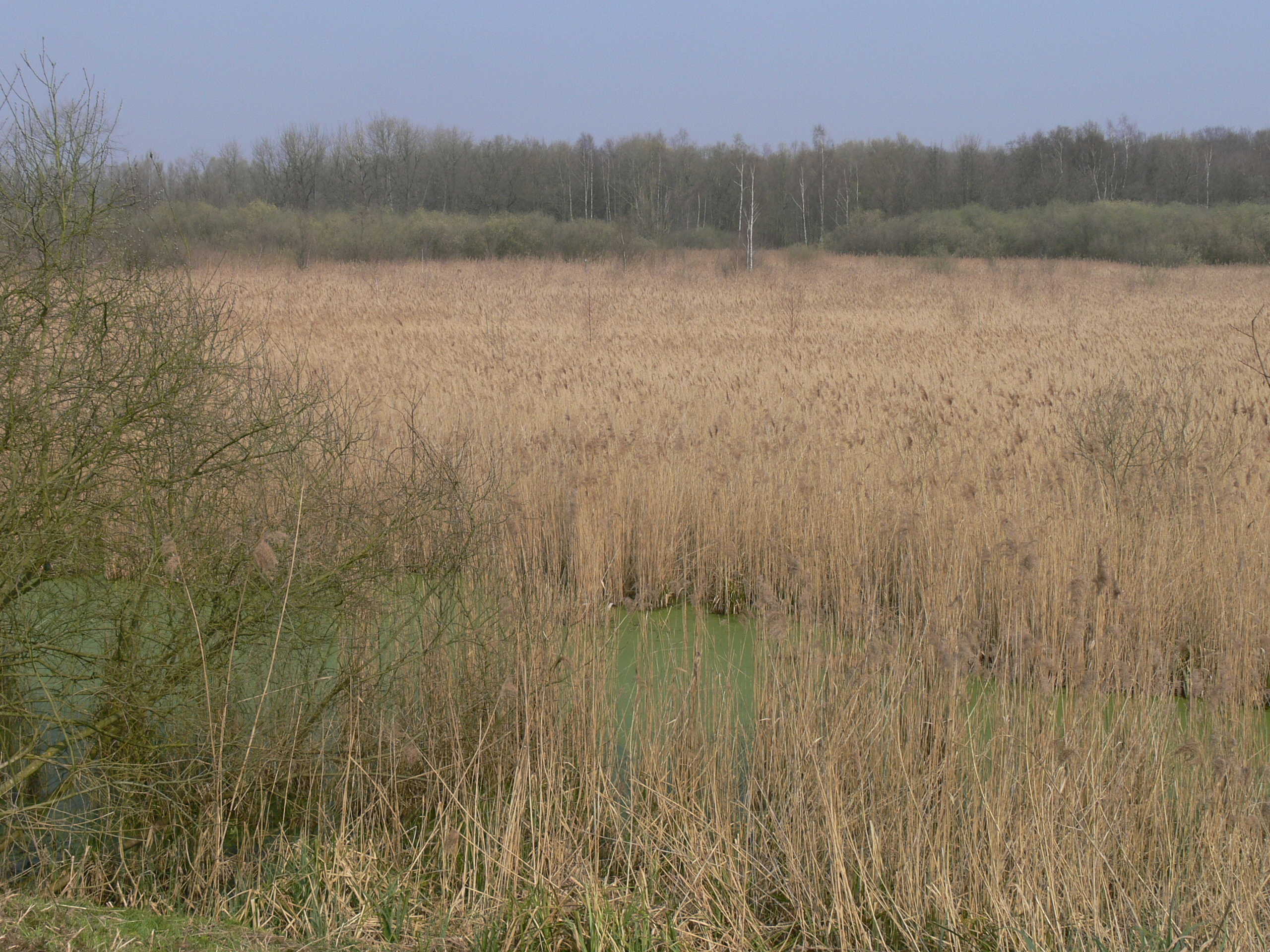 "Bog of Vred", north of france (Regional natural reserve).